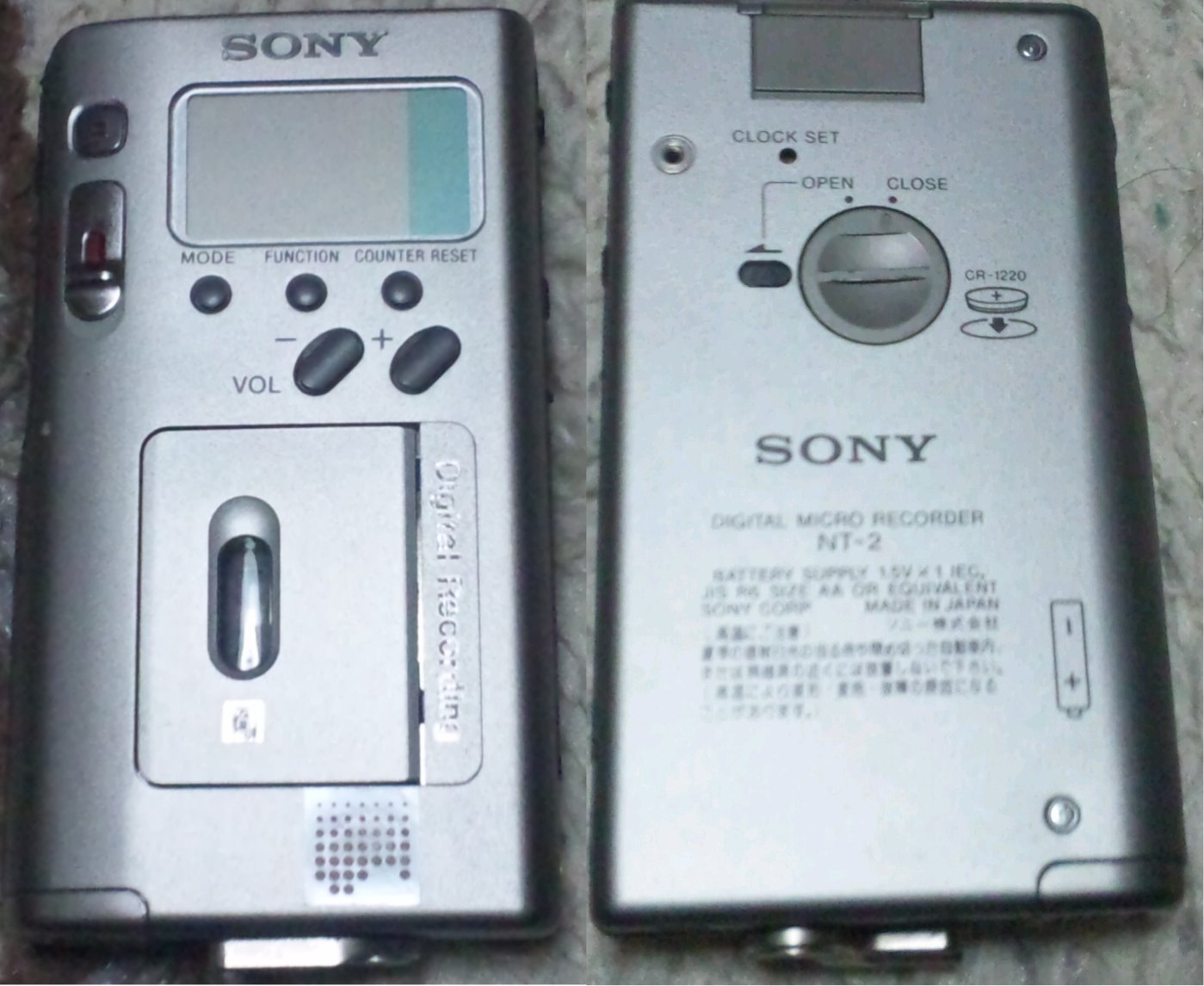 Sony NT-2 Digital Micro Recorder, introduced in 1996, front and back views. This recorder used tiny, stamp-sized tape cassettes and employed helical-scan technology to record up to 120 minutes of stereo sound with a bandwidth of 32 kHz. Having a real-time clock, it recorded a time stamp with the digital signal, thus making it useful for journalists, police and legal work. It used one size "AA" cell for primary power and one "CR-1220" lithium or alkaline coin cell to power the real-time clock continuously. The Sony NT-2 was the successor to the Sony NT-1, introduced in 1992.